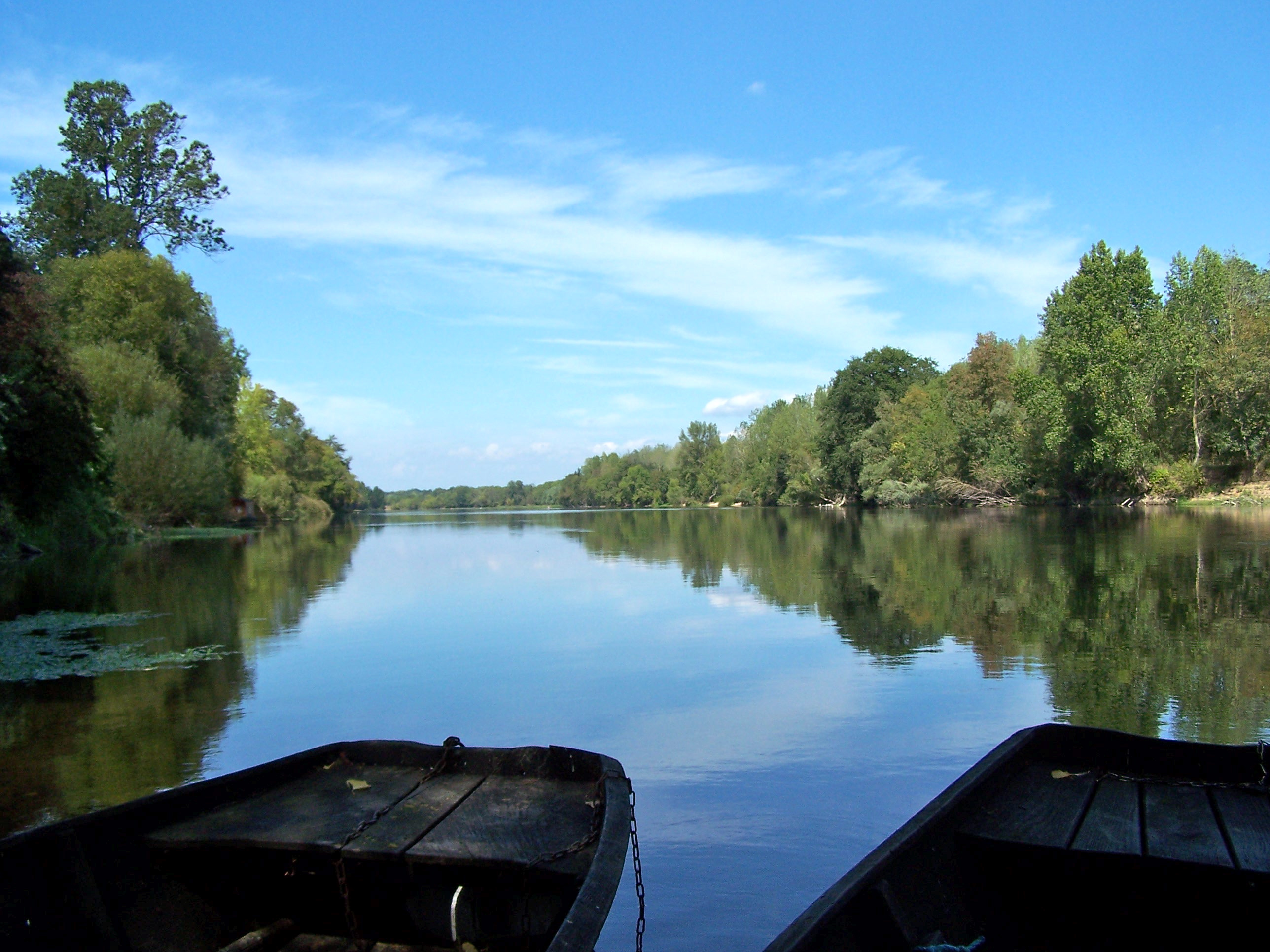 The Vienne River at Saint-Germain-sur-Vienne